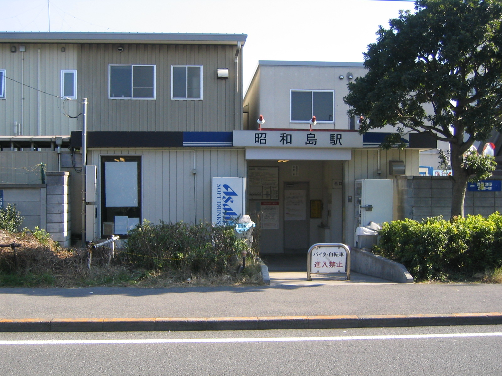 Showajima Station (West Entrance)